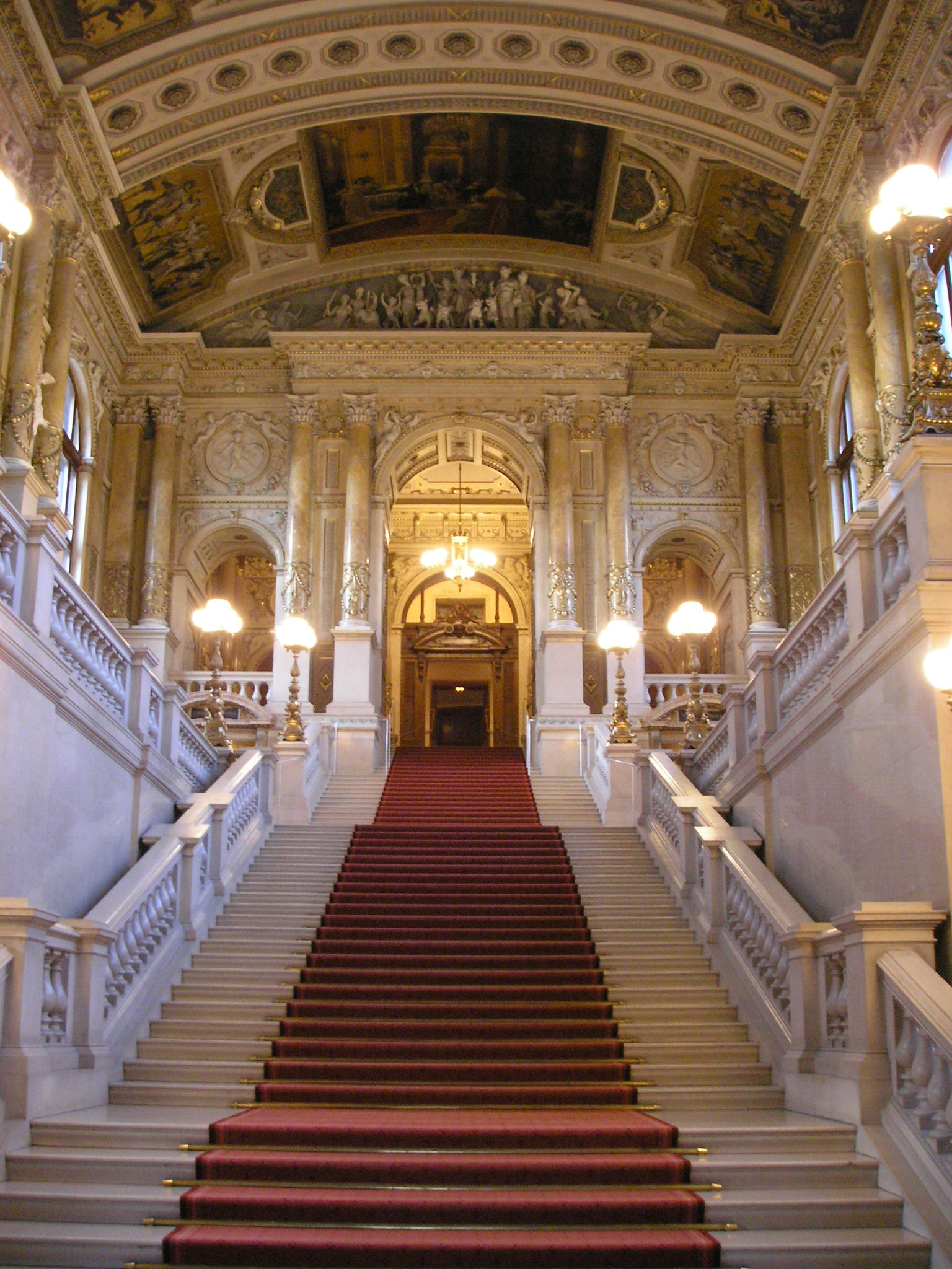 Austria, Vienna, Burgtheater